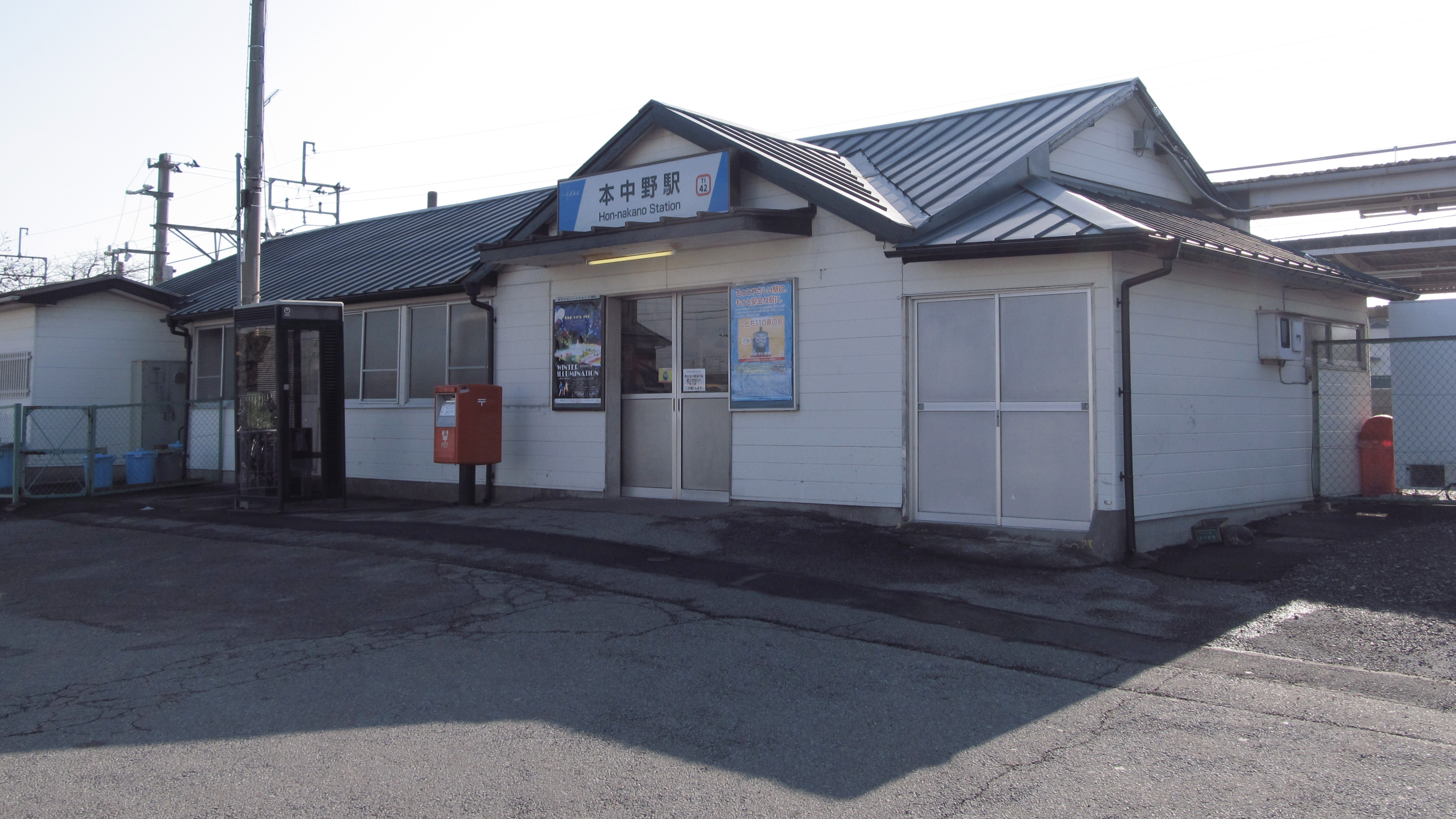 The building of Hon-Nakano Station on the Tobu Railway Koizumi Line in Ōra town, Gumma prefecture, Japan